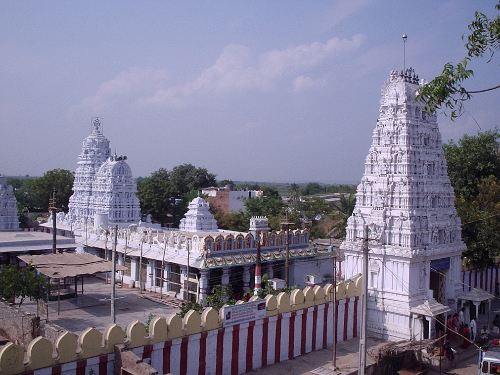 Historical Lakshmi Chennakesava Swami temple,Macherla.